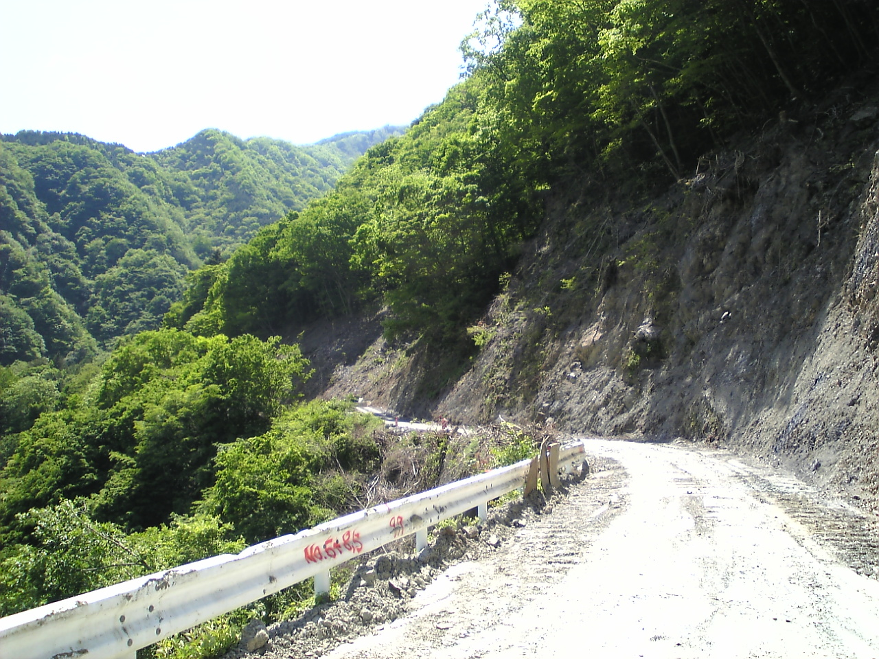 The Ikawa Amahata Forest Road in Hayakawa Town, Yamanashi Prefecture, Japan